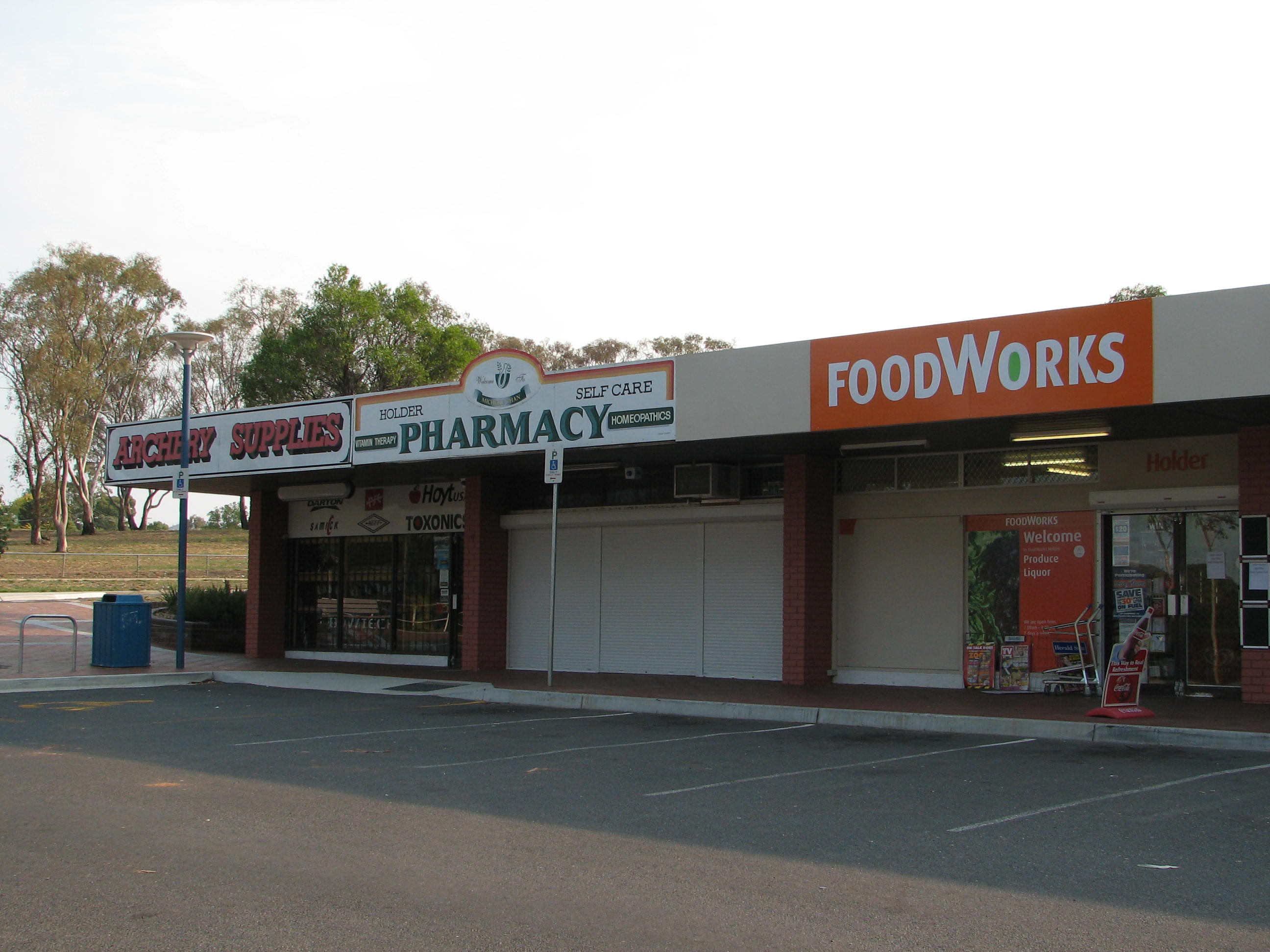 Local shops in Holder, Australian Capital Territory. Taken by me on 14th January 2007.